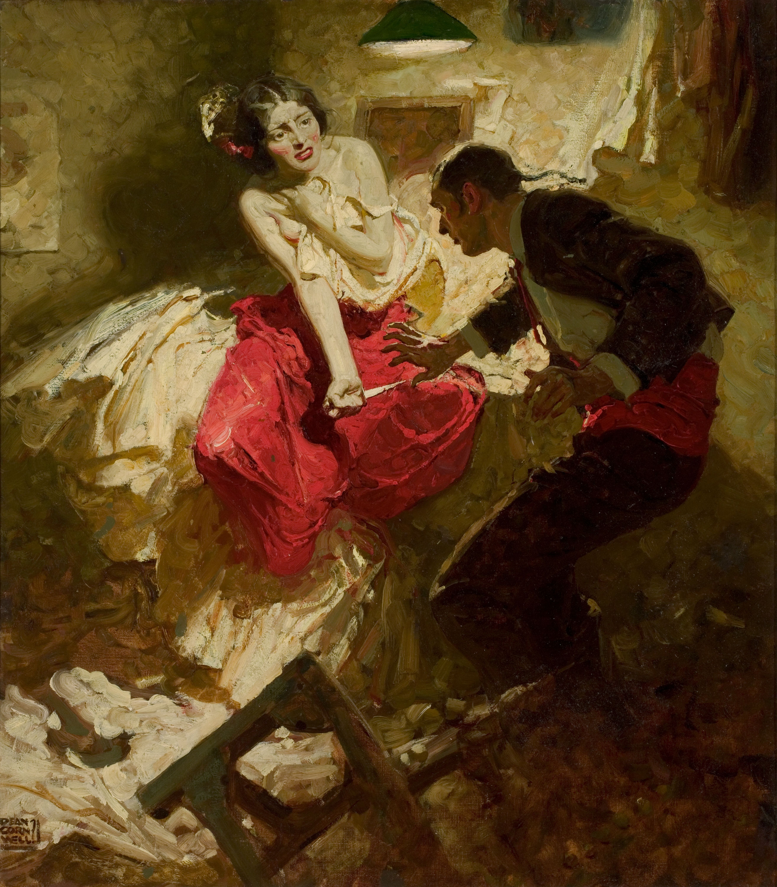 The Red Shawl